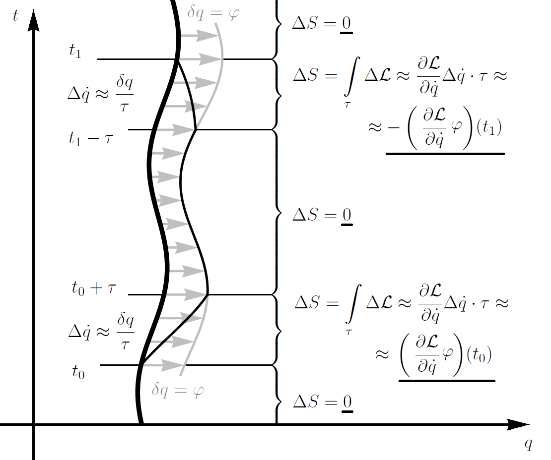 The plot depicts a trajectory of a body (bold curvy line), an action of a symmetry flow (gray arrows), and a variation of a trajectory given by applying to it the flow on a time interval. Noether's theorem then argues, that the total action wouldn't change under the variation if the trajectory was an extremum of the action; so the only non-zero terms at the ends of the time interval must cancel each other, which means the corresponding quantity is conserved.